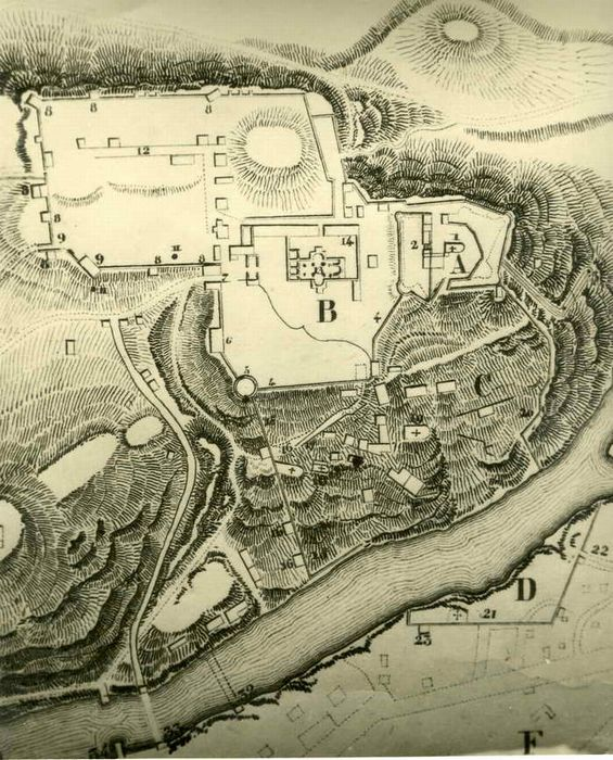 An old map of the Mukhrani castle